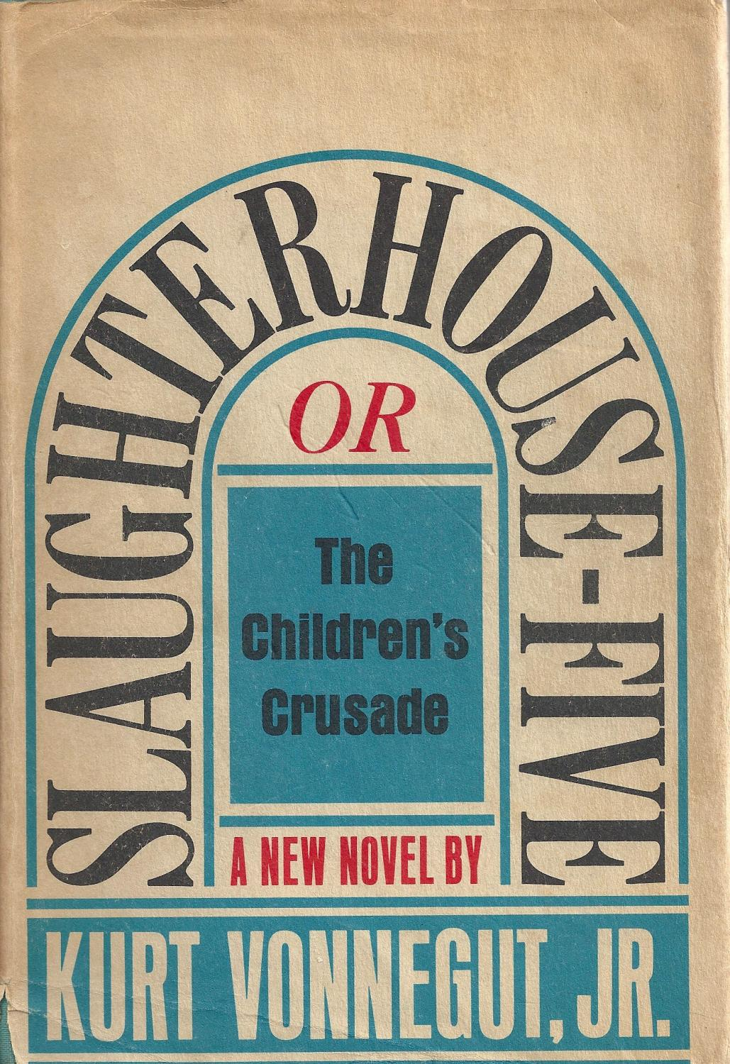 Cover of Slaughterhouse-Five (1969) by the American author Kurt Vonnegut. First edition, Delacorte Press